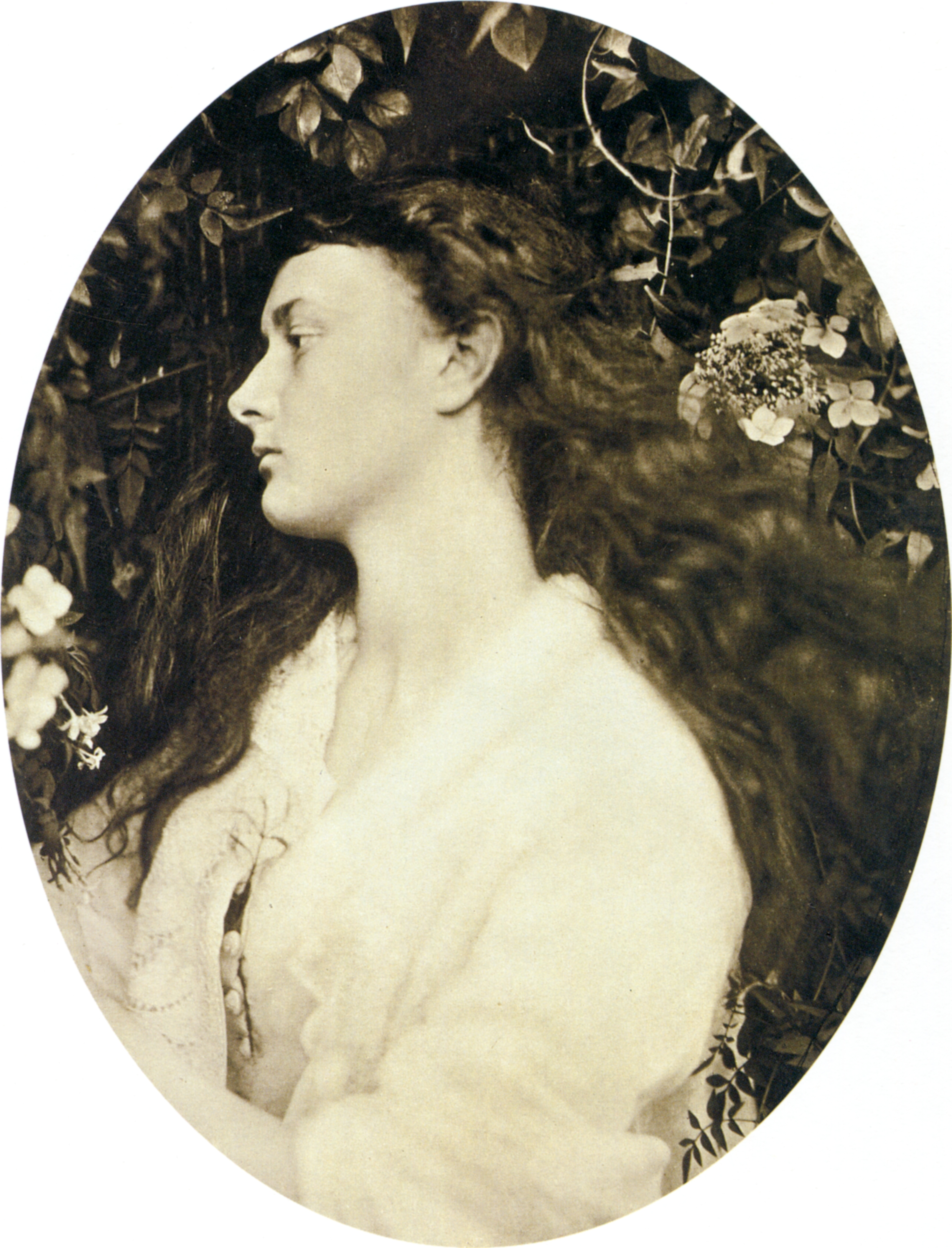 Alethea. Model is Alice Pleasance Liddell. Carbon print, 333 x 249mm (13 1/8 x 9 3/4").